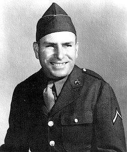 PTC Charley Havlat, Czechoamerican, last American soldier killed in Europe at combat in the WW2